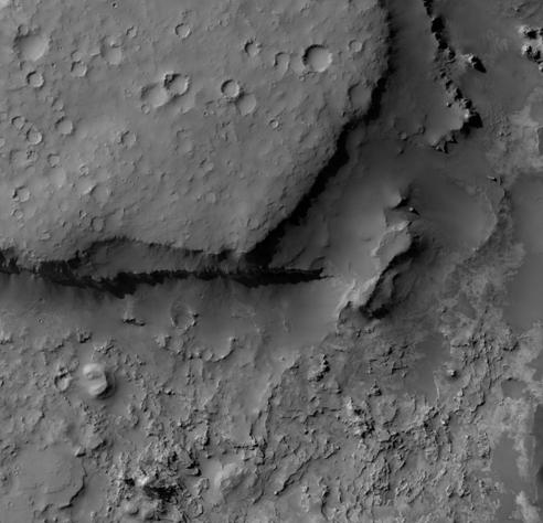 Wislicenus Crater Floor eroded strata, as seen by hirise. Location is 18.4 degrees south latitude and 12.3 degrees east longitude. Image was taken by the Mars Reconnaissance Orbiter's HiRISE. The HiRISE camera was built by Ball Aerospace and Technology Corporation and is operated by the University of Arizona. Image courtesy NASA/JPL/University of Arizona.